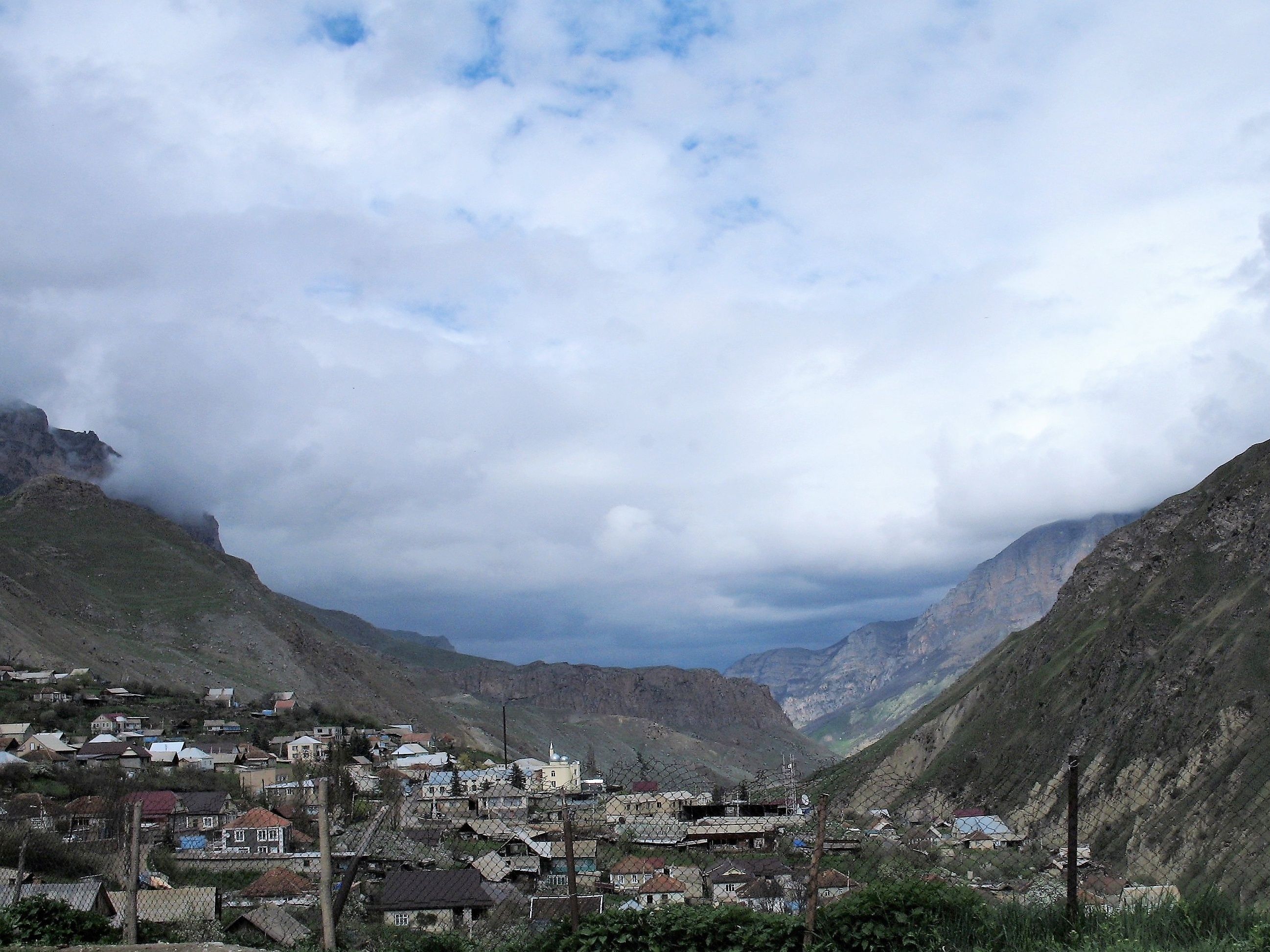 Village Bezengi in Kabardino-Balkaria